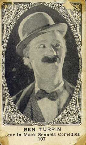 U.S. silent film comedian Ben Turpin, promotional card issued by the American Caramel company in the USA in 1921